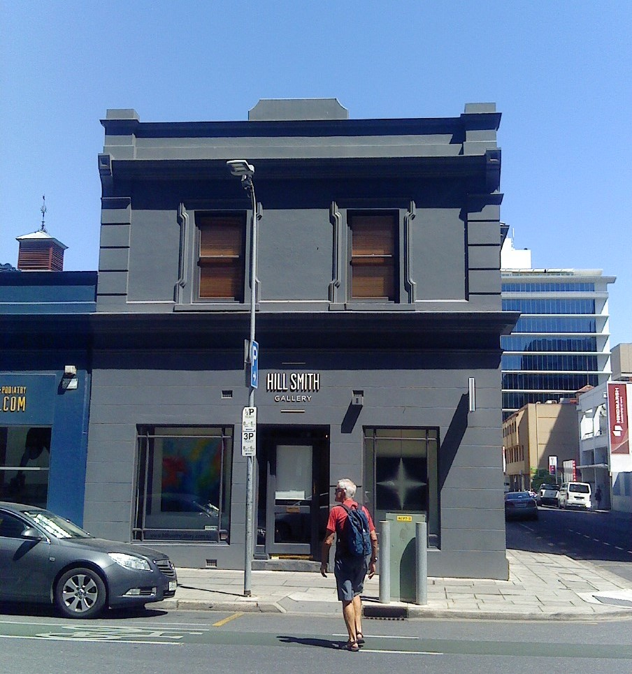 Part of Adelaide Brewery complex 113 Pirie Street